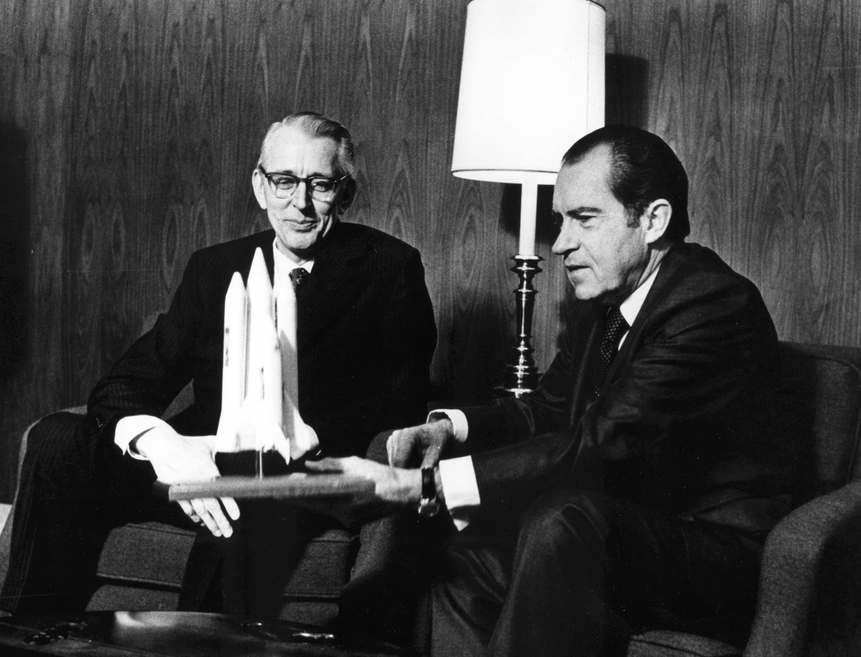 President Richard M. Nixon and Dr. James C. Fletcher, NASA Administrator, discussed the proposed Space Shuttle vehicle in San Clemente, California, on January 5, 1972. The President announced that day that the United States should proceed at once with the development of an entirely new type of space transportation system designed to help transform the space frontier into familiar territory.